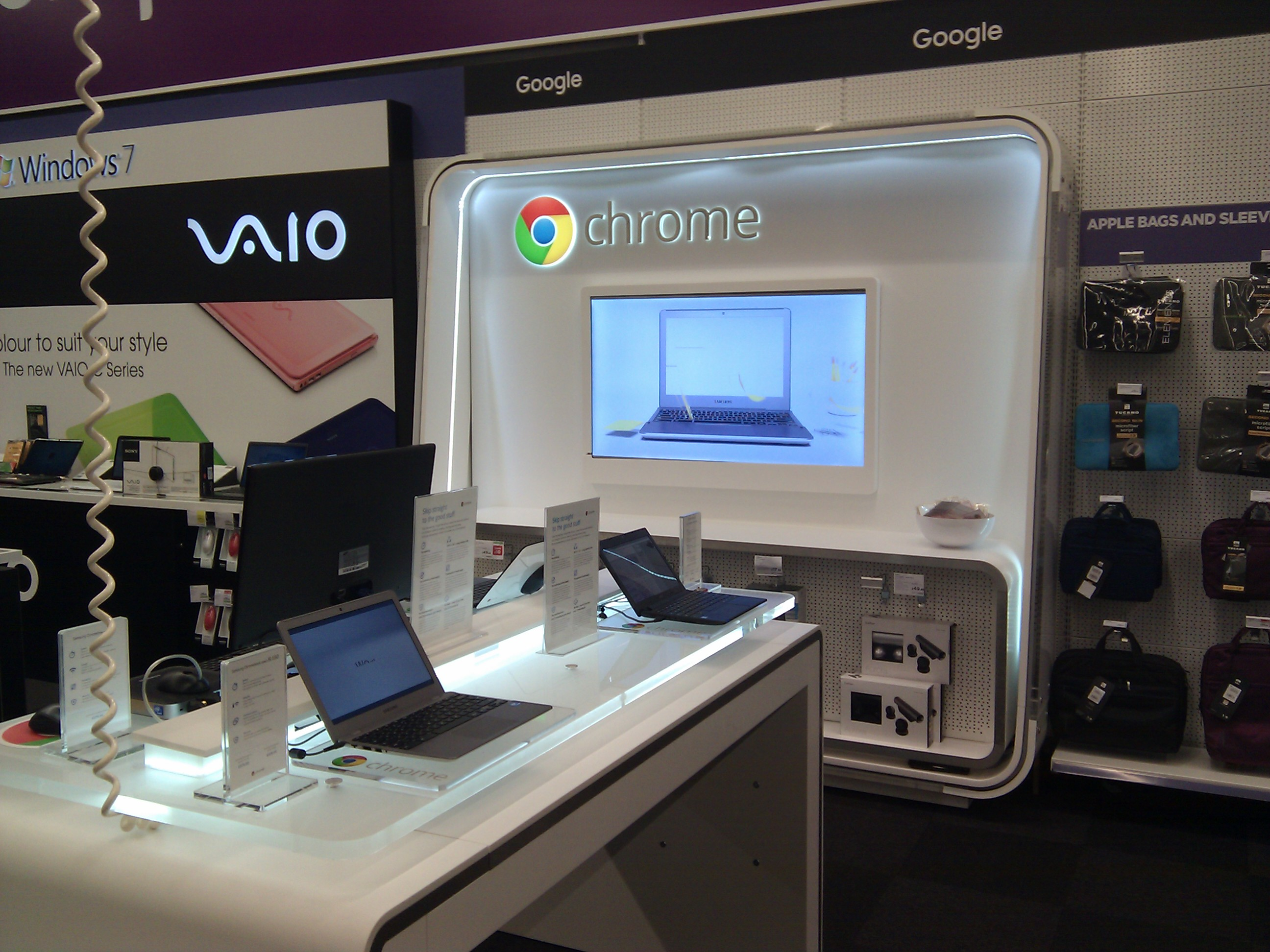 "google chrome store" at "currys pc world" in "new malden"